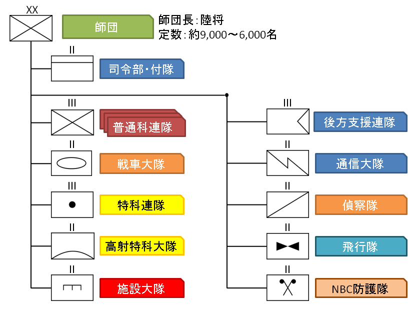 Organization of the Division of the Japan Ground Self-Defense Force.